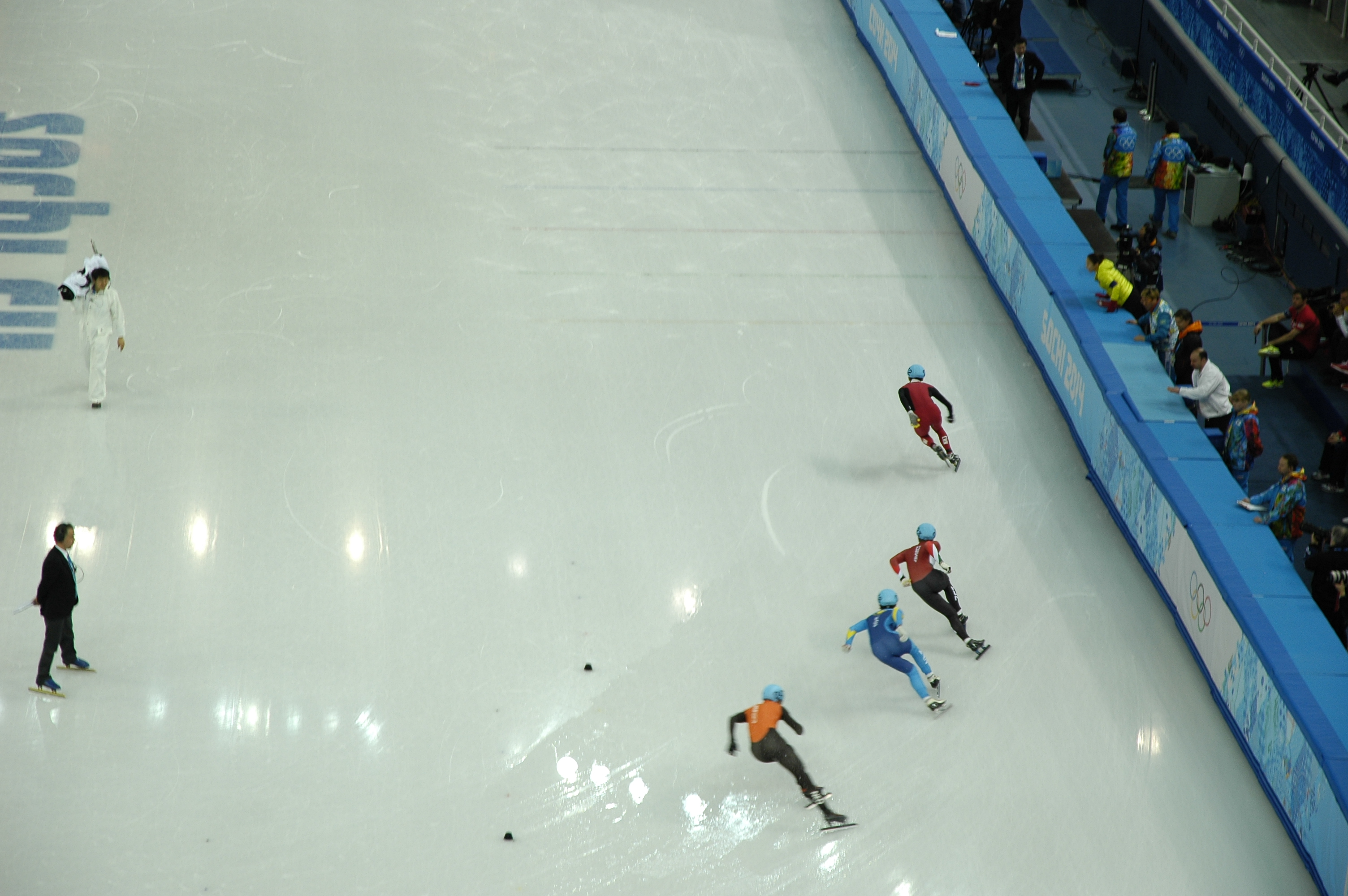 Men's 500m short track, 2014 Winter Olympics, heat 6 1 Wu Dajing China 41.712 Q 2 Viktor Knoch Hungary 42.261 Q 3 Niels Kerstholt Netherlands 42.441 4 Nurbergen Zhumagaziyev Kazakhstan 42.680